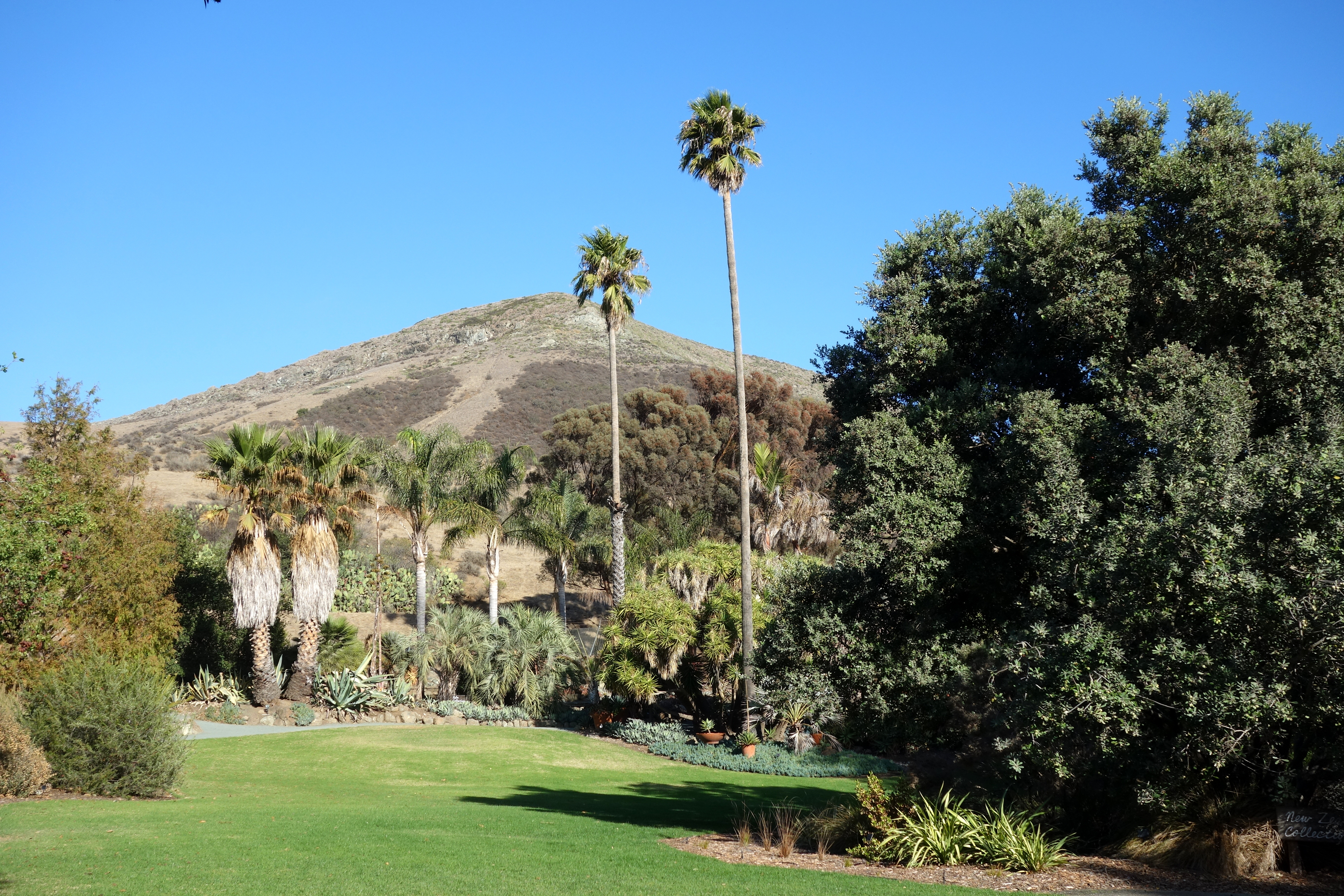 Leaning Pine Arboretum, California Polytechnic State University, San Luis Obispo, California, USA.